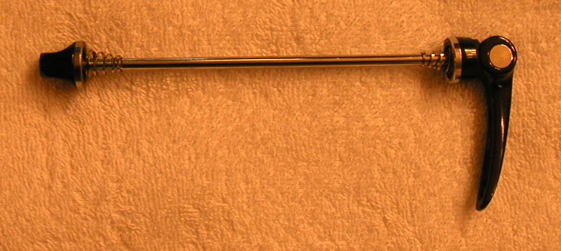 Quick release scewer